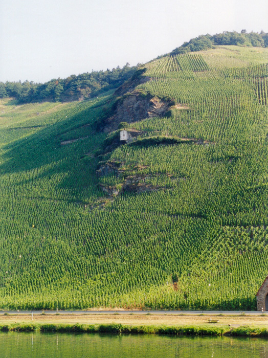 From author "The Wehlener Sonnenur (sundial) vineyard, one of the best on the Mosel River, is across the river from Wehlen. Here is the sundial. Km 126."